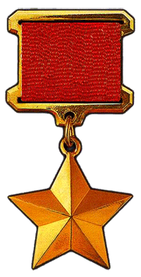 Medal “Gold Star” of a “Hero of the Soviet Union”